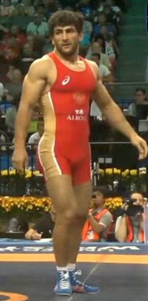 Aniuar Borisovich Geduev, a Russian freestyle wrestler.